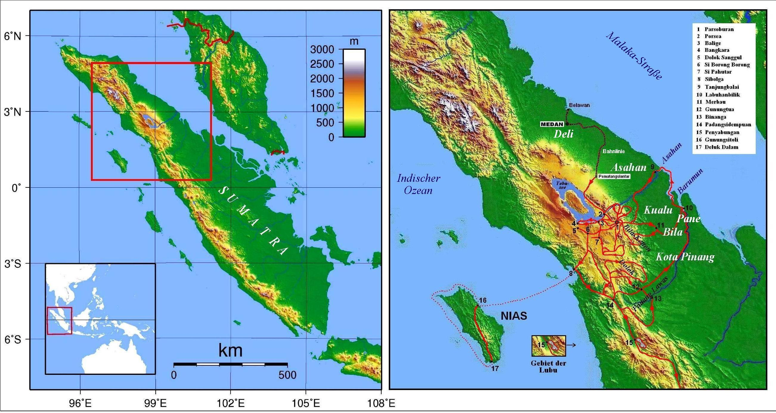 Topographic map of Sumatra. Created with GMT from publicly released SRTM data. Helbigs Reiserouten in Nordsumatra und auf der Insel Nias.